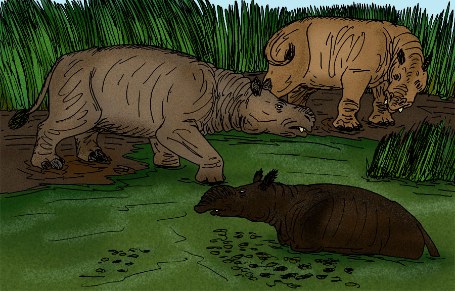 Reconstructions of various amynodont rhinoceroses from the latest Eocene of Yunnan, China, including Gigantamynodon (left), Metamynodon (on the far shore), and the tapir-like Cadurcodon. (C) Stanton F. Fink